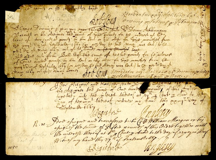 Draft letter of 1669 from Sir Robert Long to Sir George Downing, instructing that Downing pay Sir Denny Ashburnham 6 pounds interest on 200 pounds lent. Signed by Long. Hand written. 86 mm x 240 mm. Courtesy of the British Museum, London.